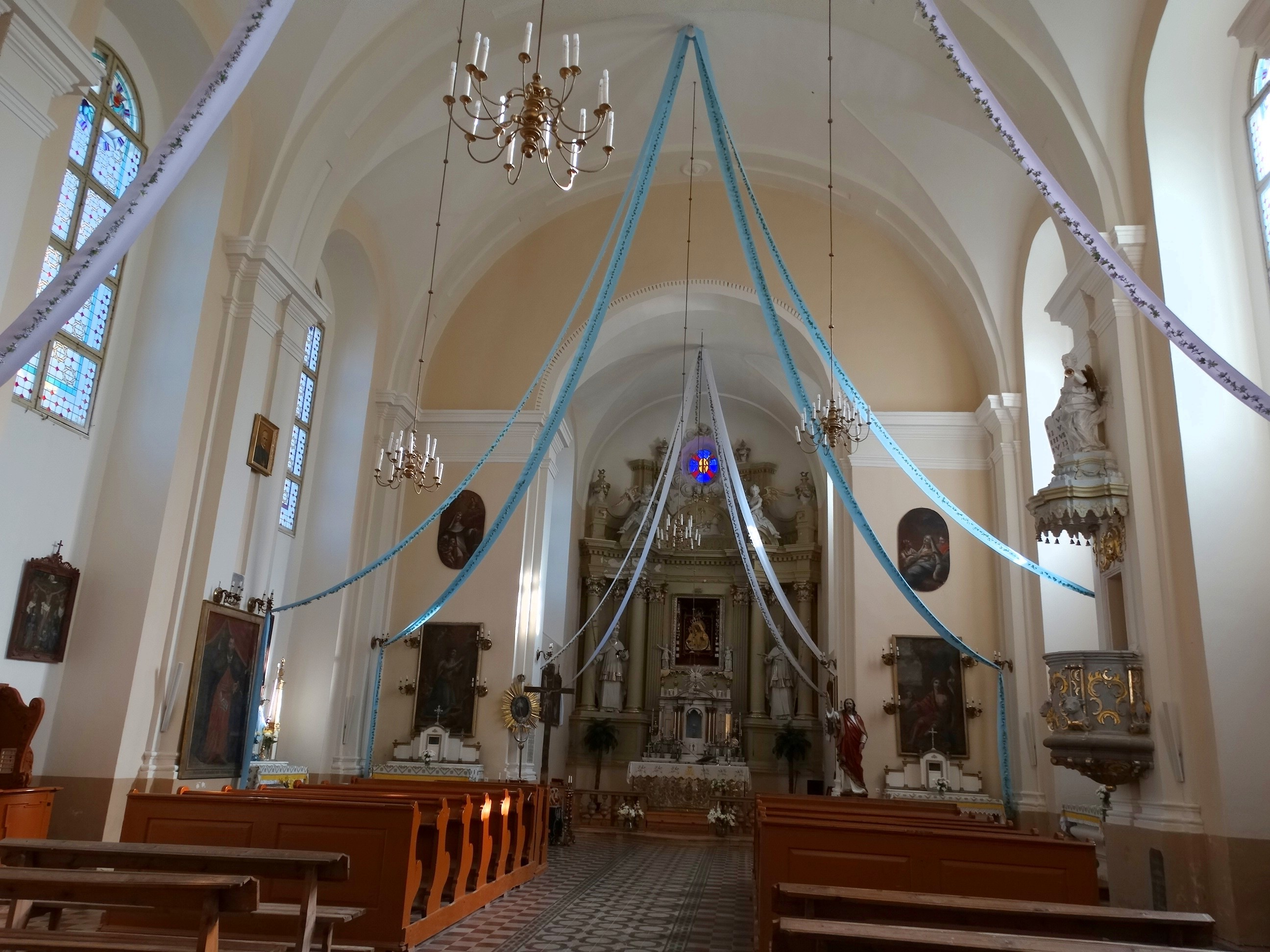 Catholic Church, Kazokiškės, Elektrėnai municipality, Lithuania